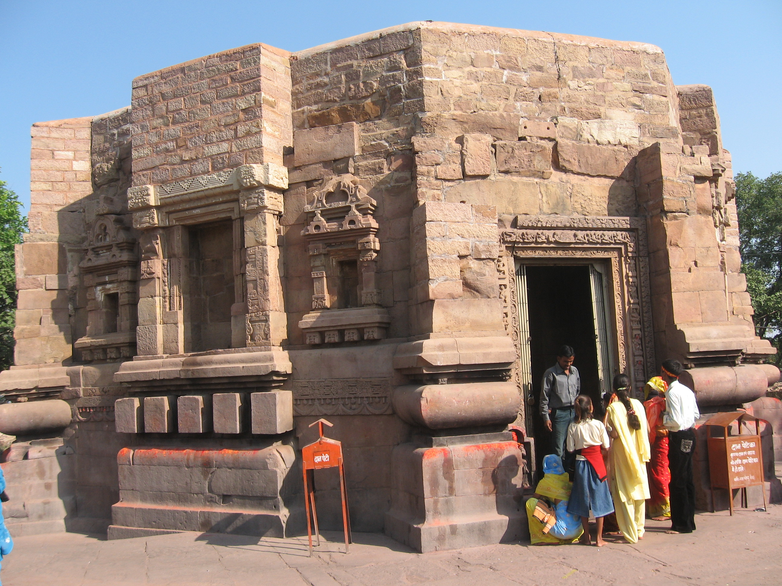 this temple is situated in Kaimur district of Bihar , India